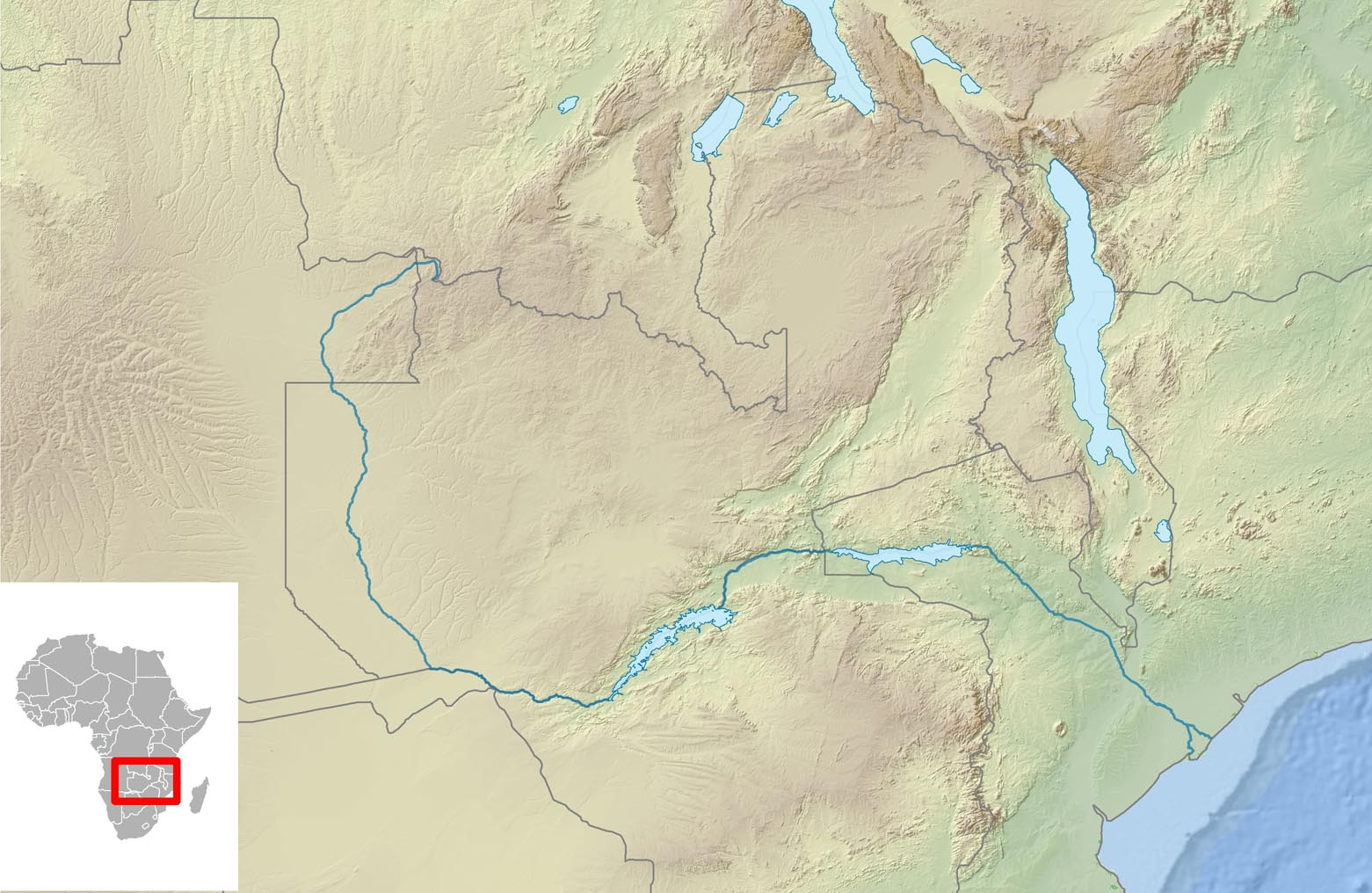 Africa Zambezi Relief Location Map